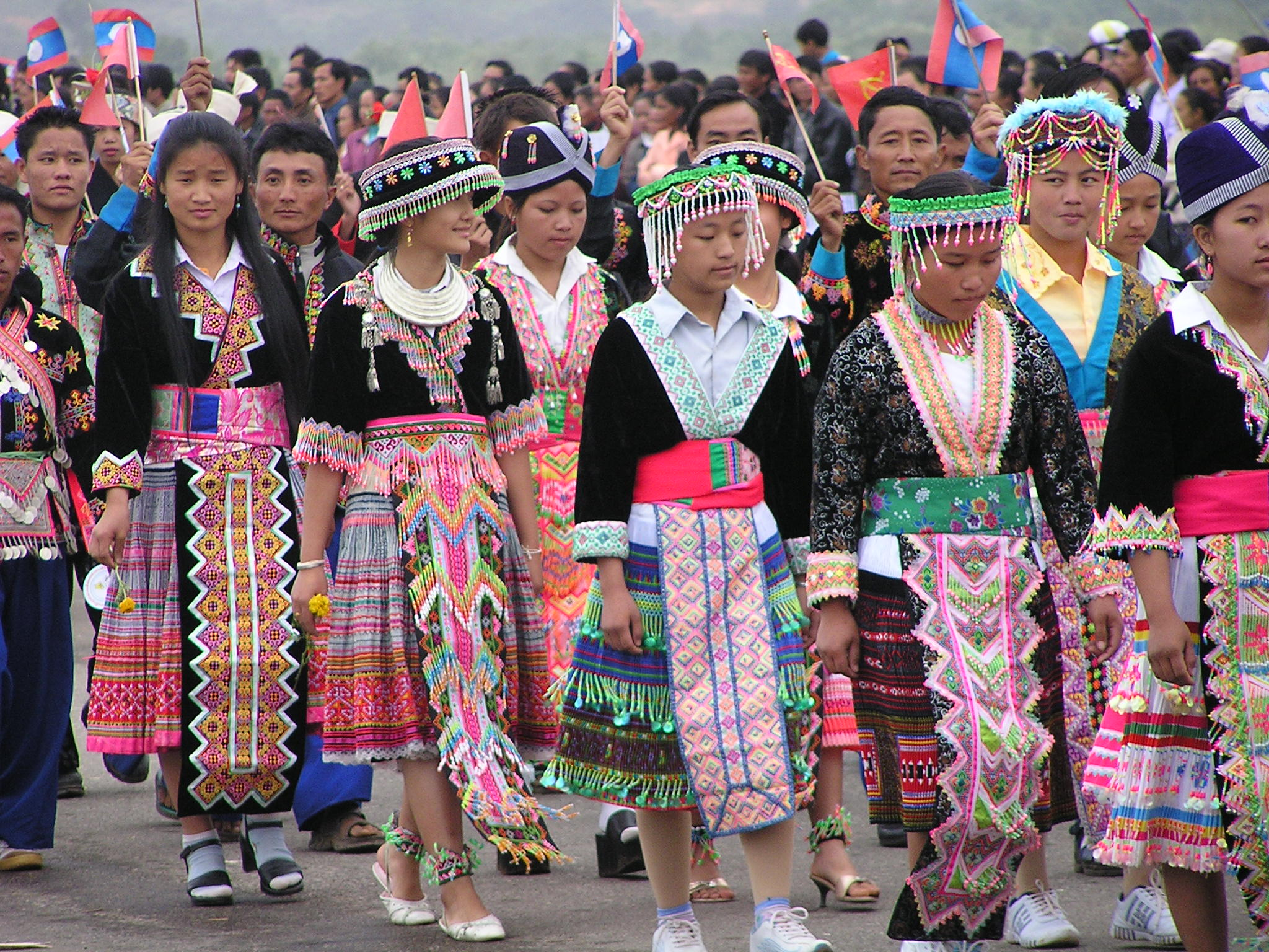 People of the ethnic group Hmong on a parade in Oudomxay Town